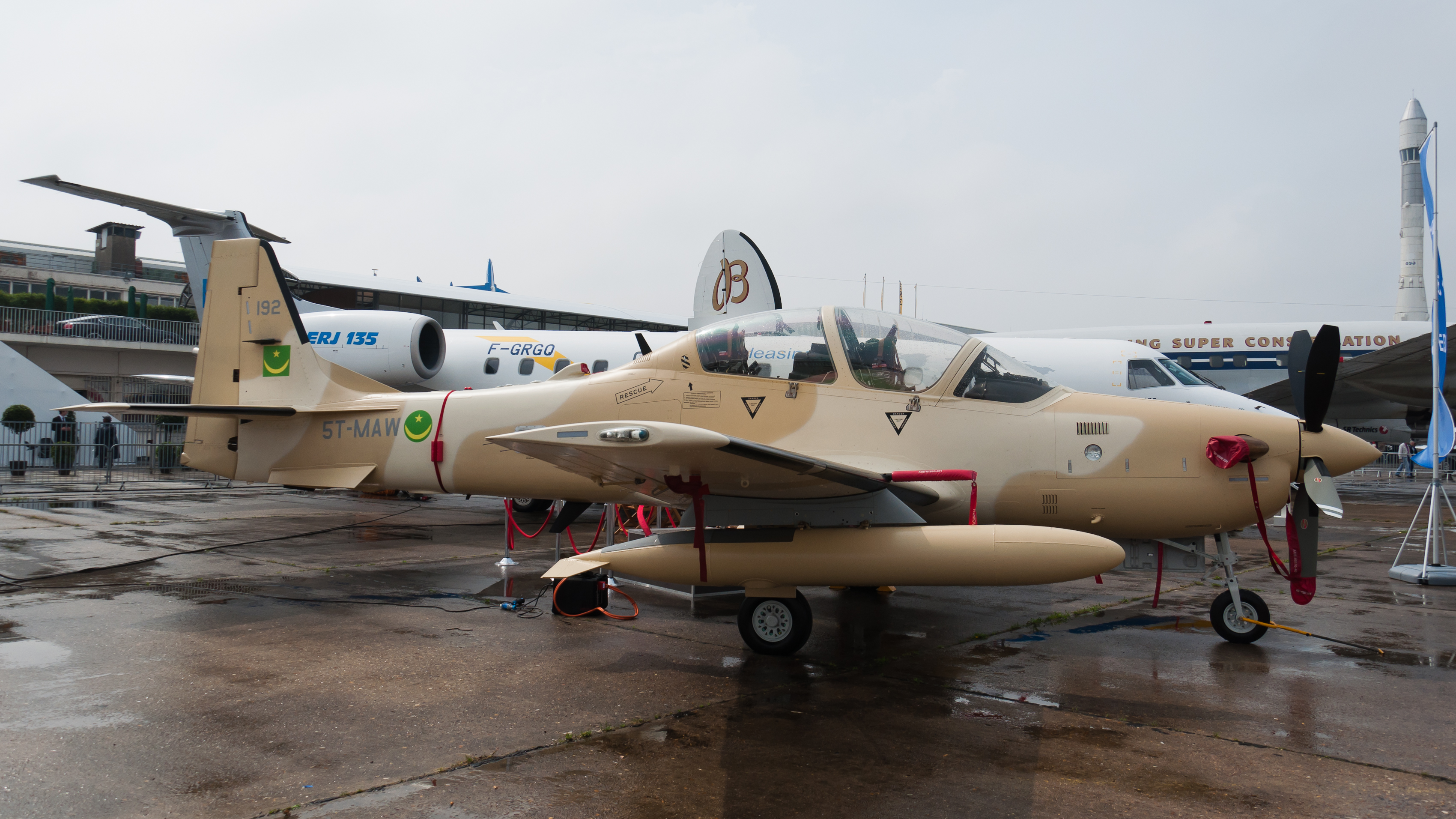 Mauritania Air Force Embraer A-29B Super Tucano (reg. 5T-MAW, c/n 192) at Paris Air Show 2013.